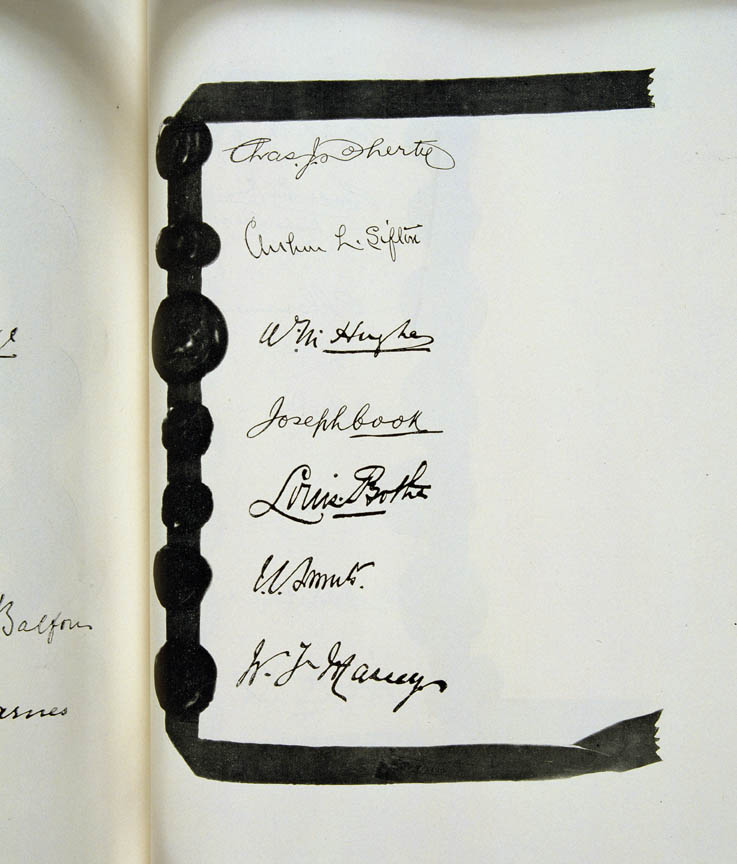 British Empire signatories to the Treaty of Versailles: Charles Doherty (Can.), Arthur Sifton (Can.), Billy Hughes (Aus.), Joseph Cook (Aus.), Louis Botha (S. Af.), Jan Smuts (S. Af.), Walter Massey (N.Z.).